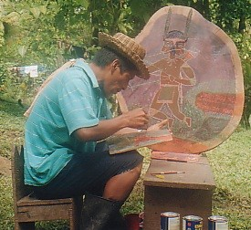 Picture taken by self in Panama